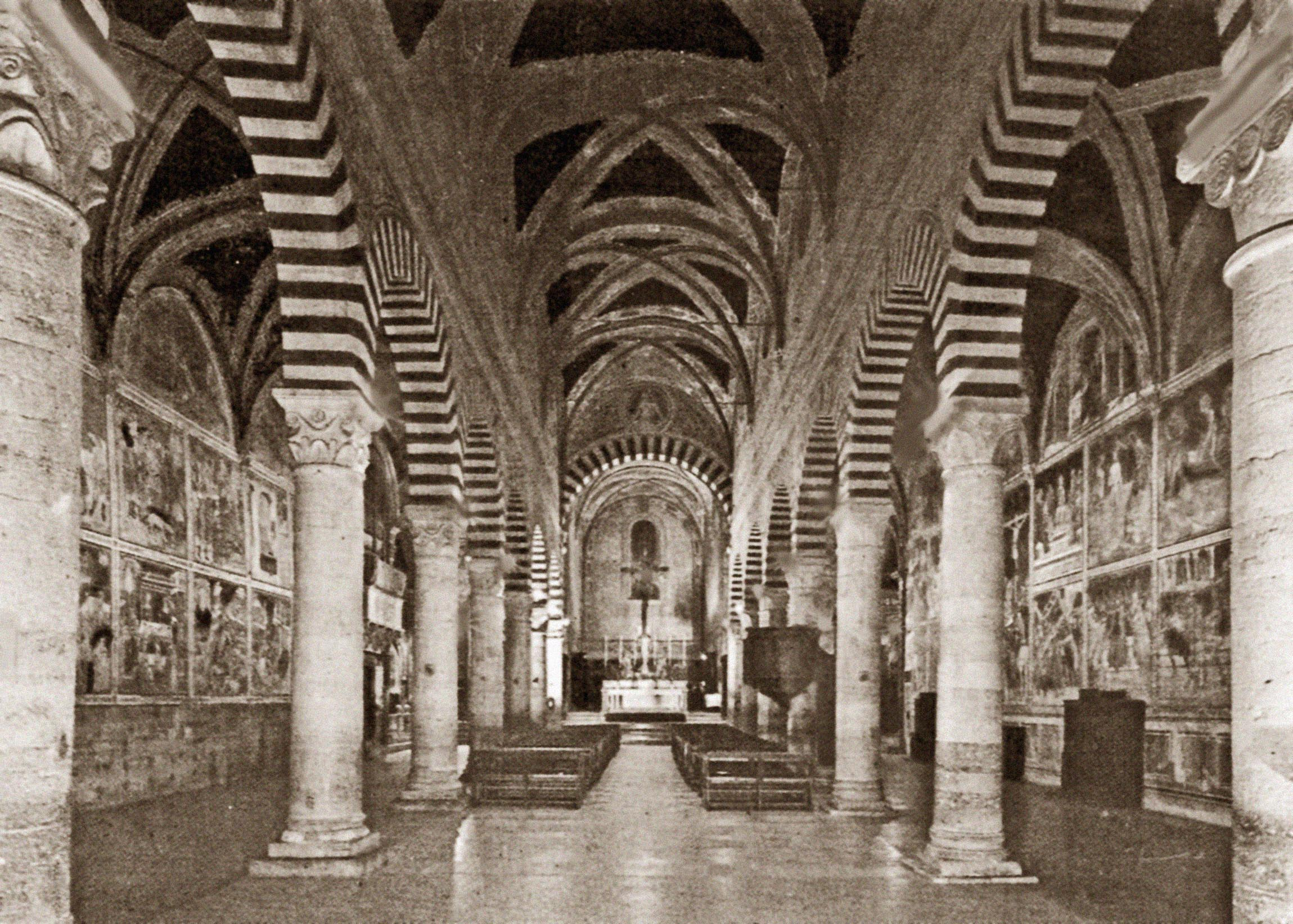 Photo taken from an old postcard of the interior of the Collegiate Church of San Gimignano